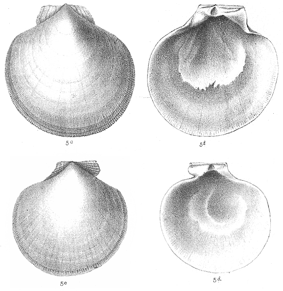 Palliolum_gerardi (upper: left valve; lower: right valve) - Fossil bivalve from Pliocene deposits near Antwerp (Belgium)